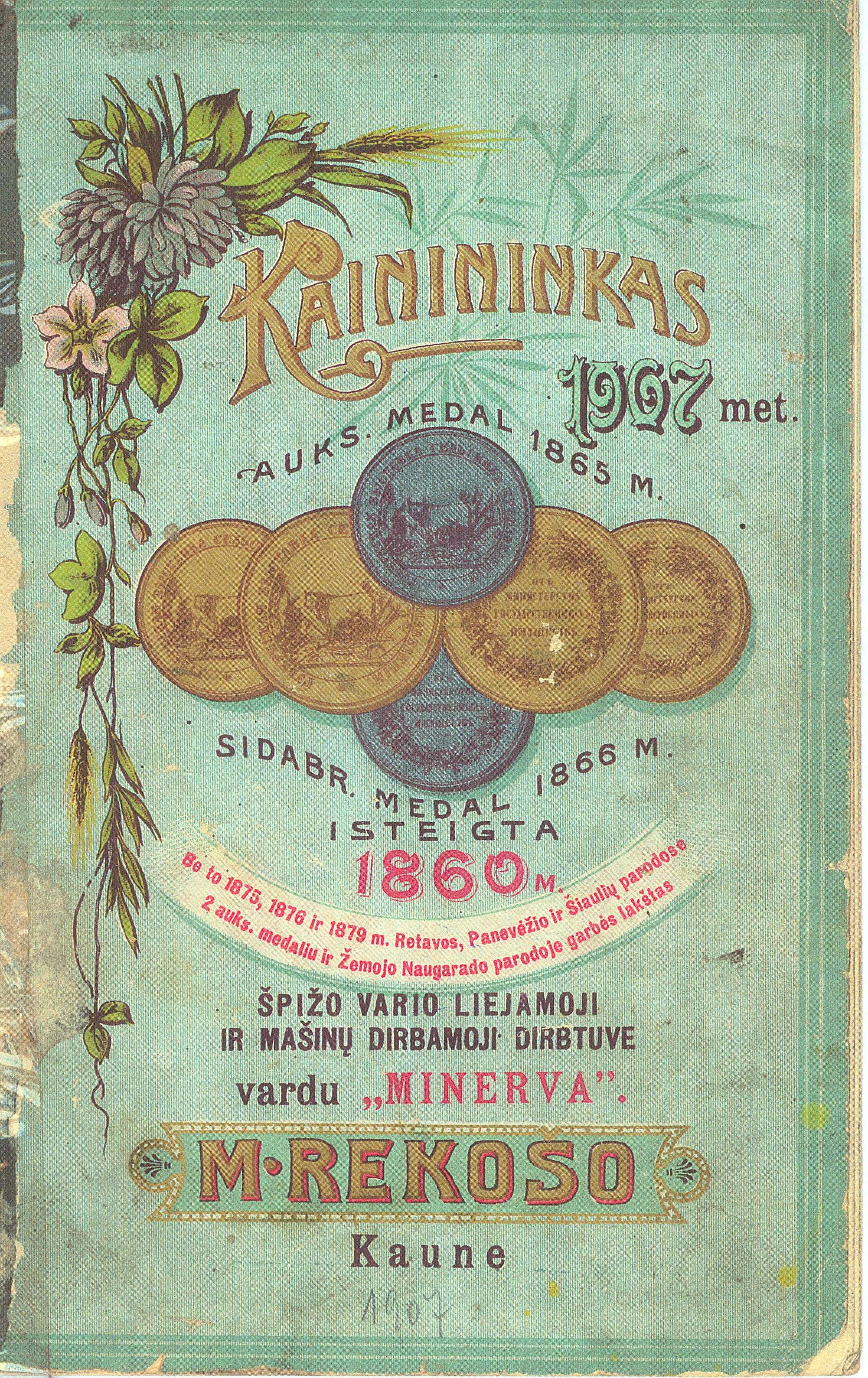 Price list (cover) of the metal foundry „Minerva“ of Mikołaj Franciszek Rekosz, 1907, Kaunas, Lithuania